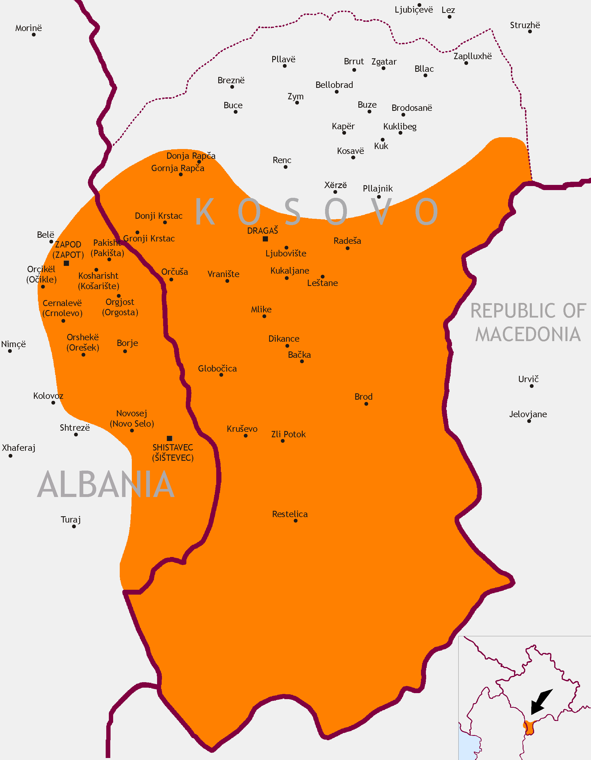 Gora Region between Kosovo and Albania